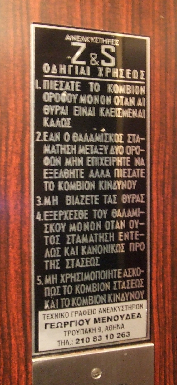 Elevator instructions in Athens